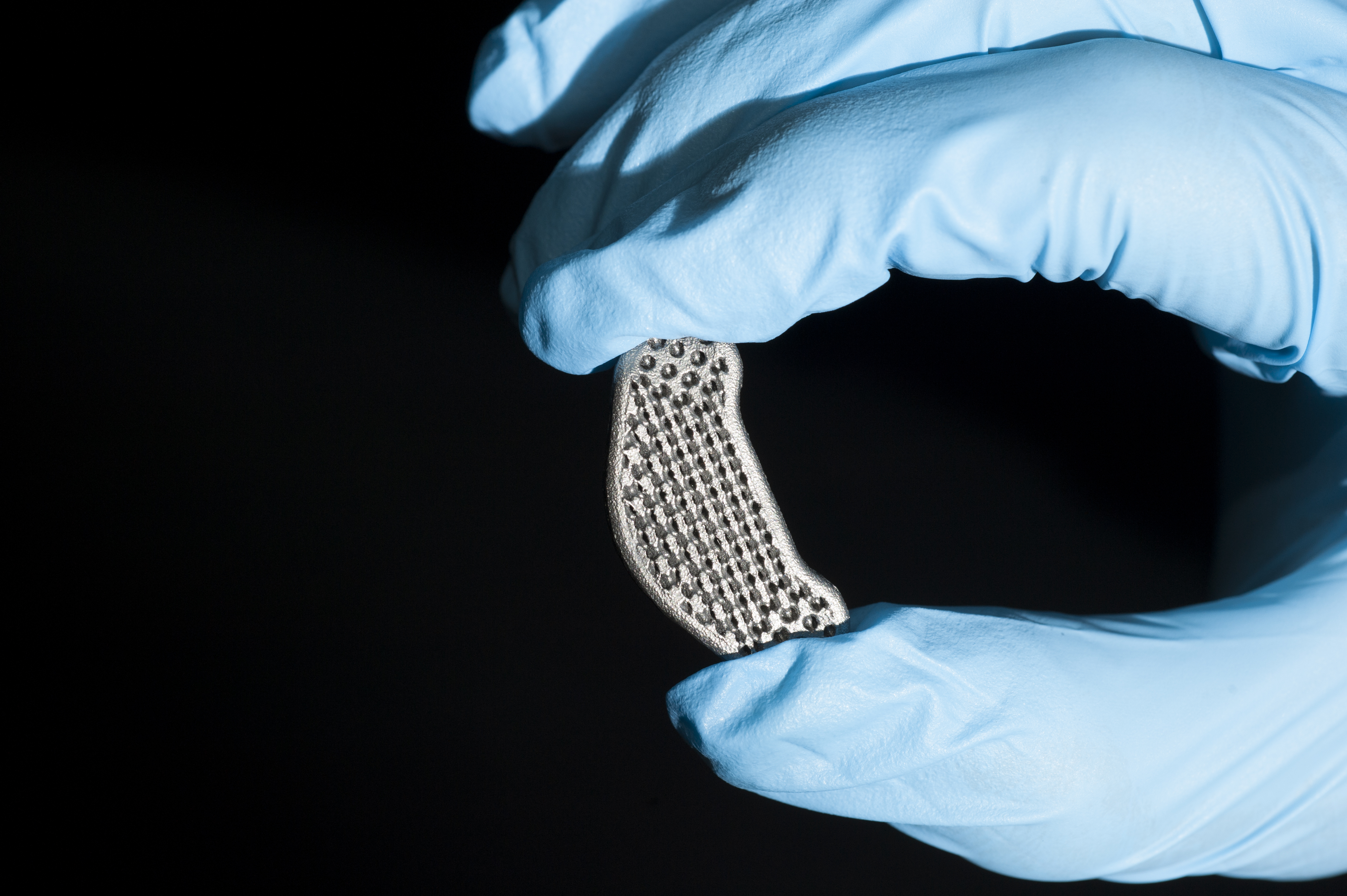 3D-printed titanium spinal disc replacement, similar to those used to treat degenerative disc disease. This photo is free of all copyright restrictions and available for use and redistribution without permission. Credit to the U.S. Food and Drug Administration is appreciated but not required. For more privacy and use information visit: FDA photo by Michael J. Ermarth